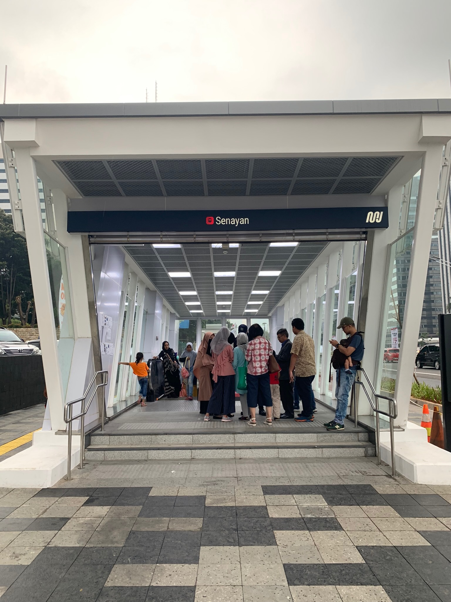 Senayan MRT Station enterance/exit